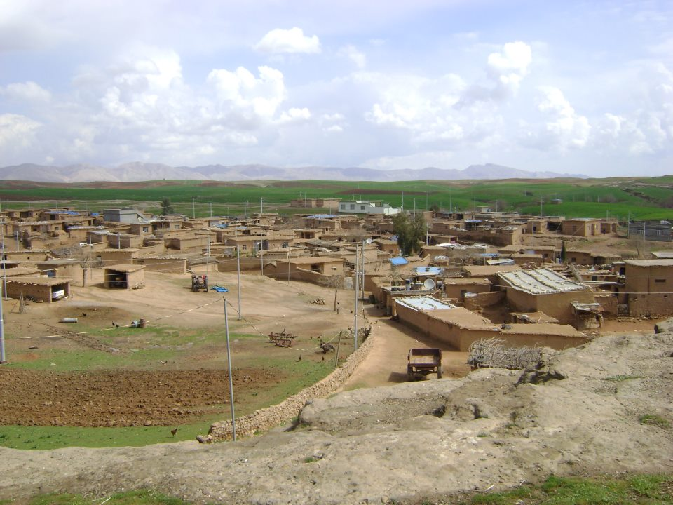 بانیماران ٢٠١١